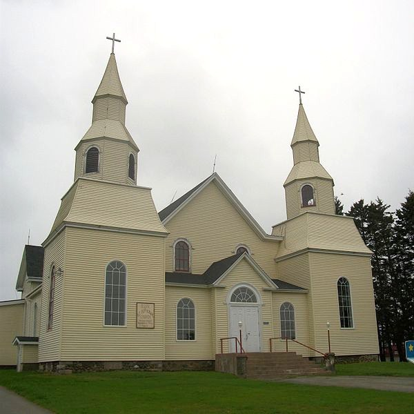 Église de Saint-Alphonse de Clare Church in Saint-Alphonse, District of Clare, Digby County, NS